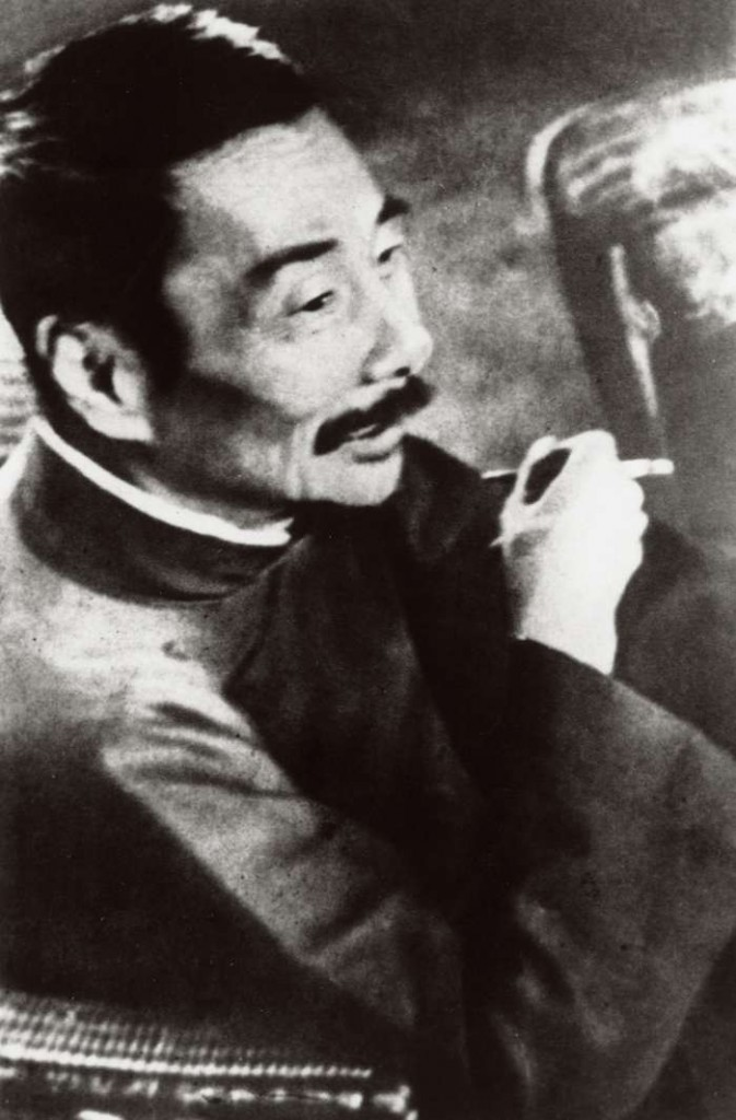 Lu Xun on 8 October 1936, 11 days before his death, attending the Second Woodcarving Exhibition in Baxianqiao, Shanghai. Photograph by Sha Fei.